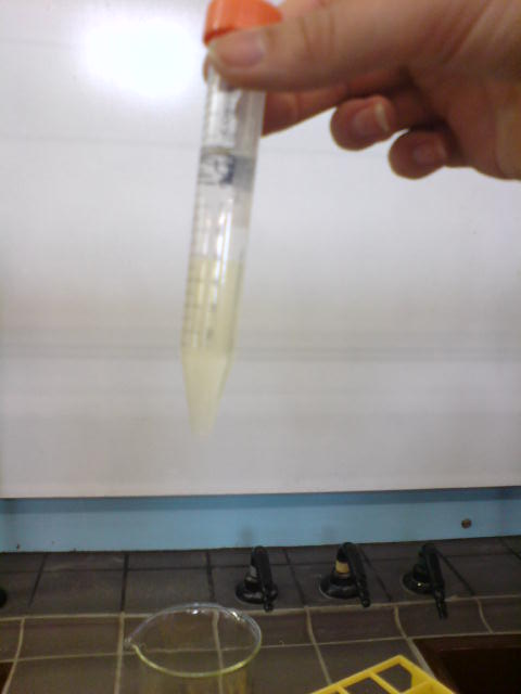 Liquid liquid extraction